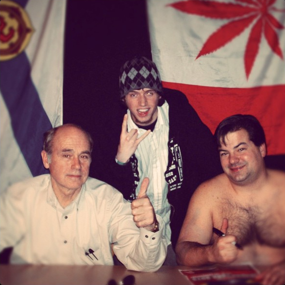 John Dunsworth poses with a fan and Patrick Roach John Dunsworth poses with a fan and Patrick Roach